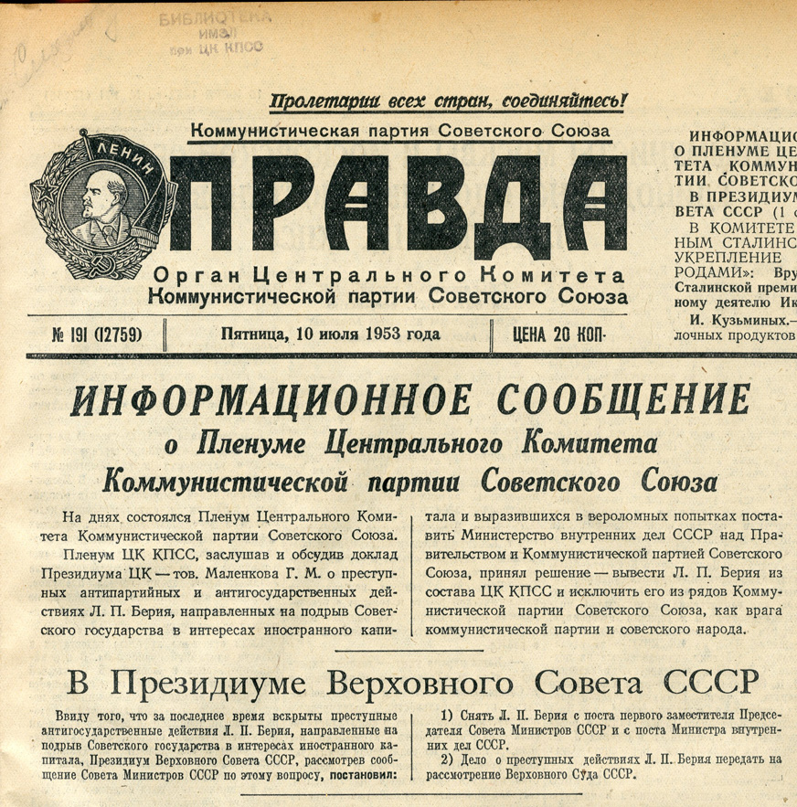 The official report of Beria dismissal